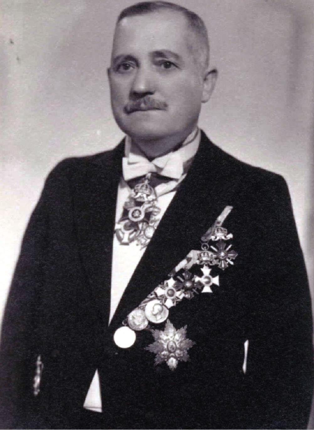 Professor Konstantin Pashev in Cairo 1937 - International Ophthalmology Congres